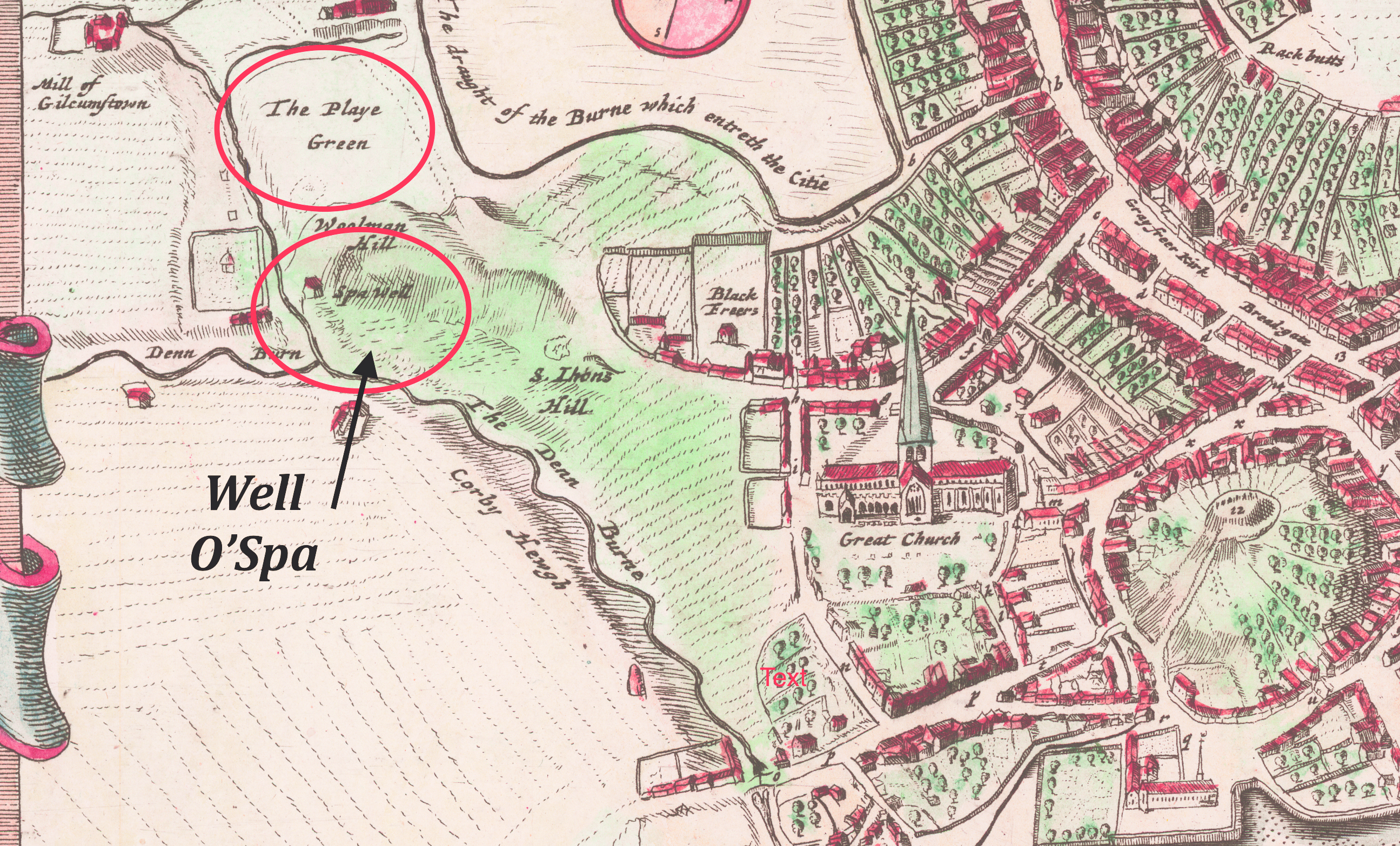 map of Well O'Spa